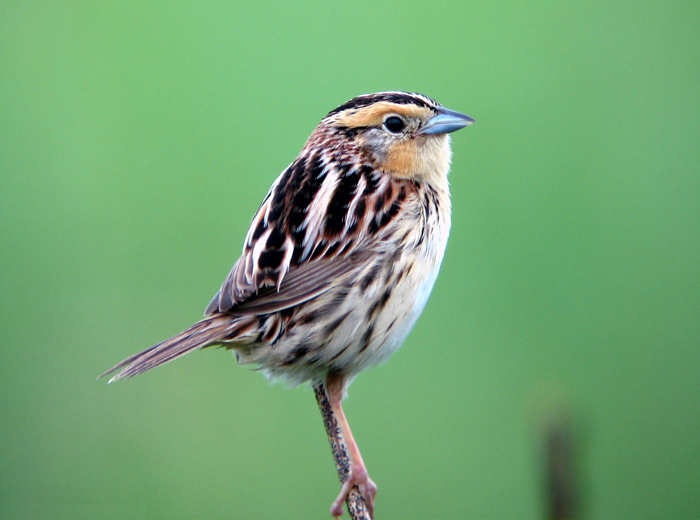 Le Conte's Sparrow (Ammodramus leconteii)), Photo taken on breeding territory in Port Wing, Bayfield County, Wisconsin, USA